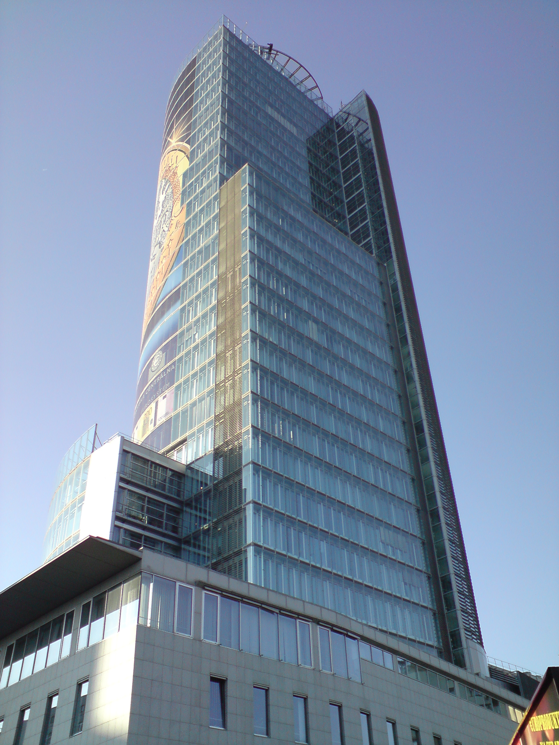 National bank of Slovakia